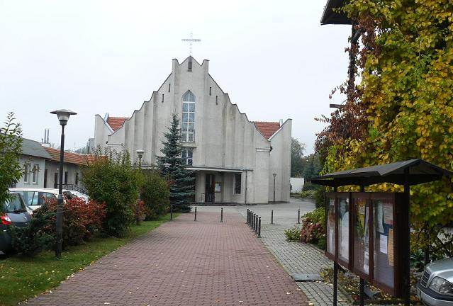 Poznan Wola-part - Church.